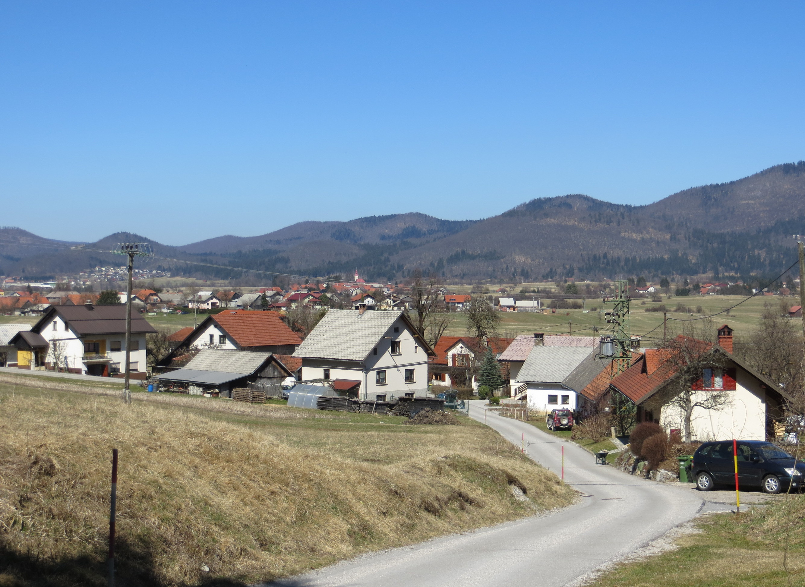 Podgora pri Ložu, Municipality of Loška Dolina, Slovenia